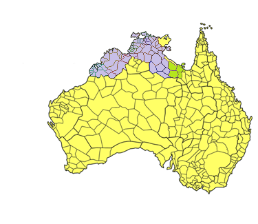 Map of Pama-Nyungan languages (Yellow) and Garawa/Tankic (Green)